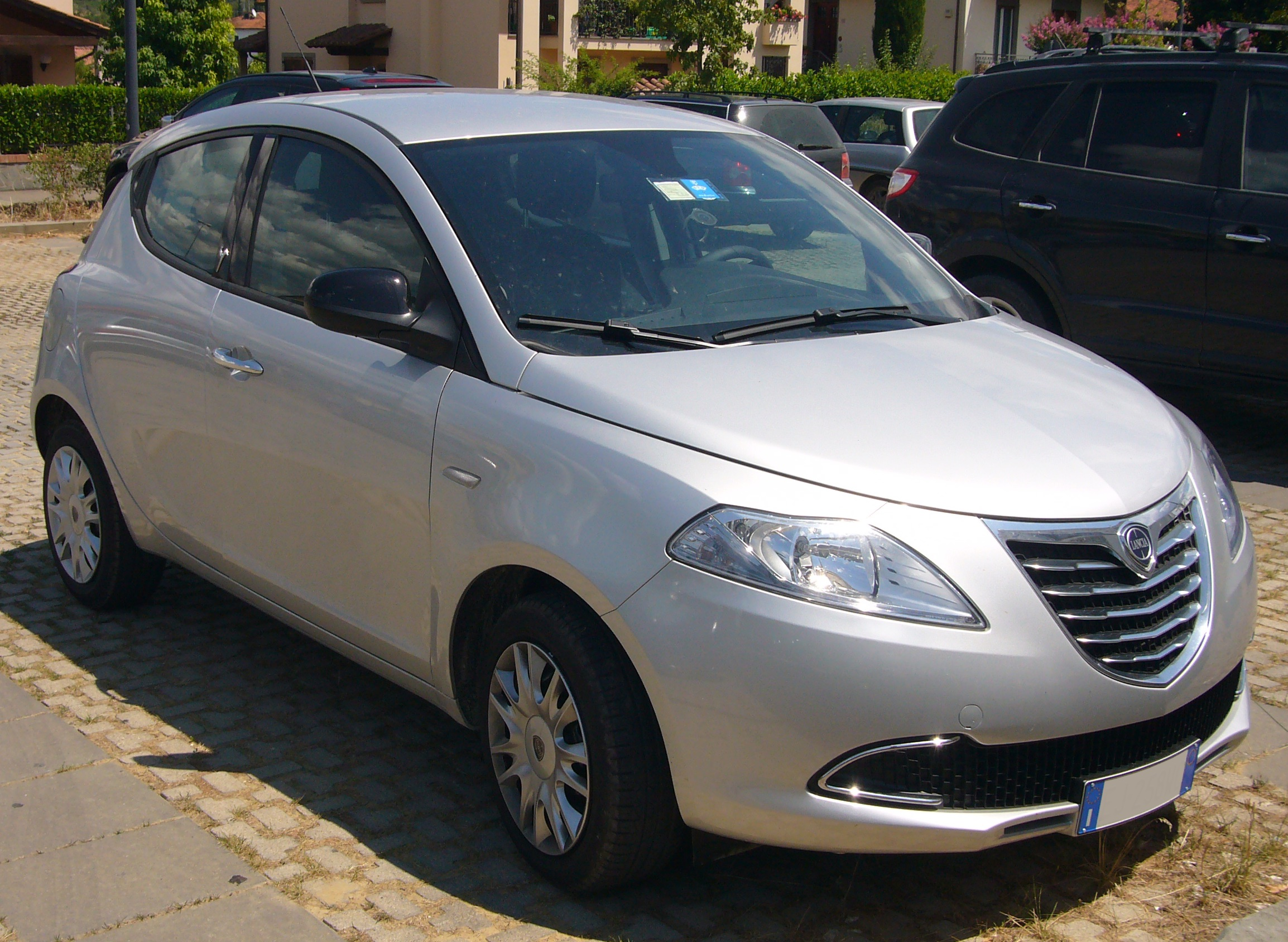 Lancia Ypsilon (2011) in Arezzo, Tuscany, Italy